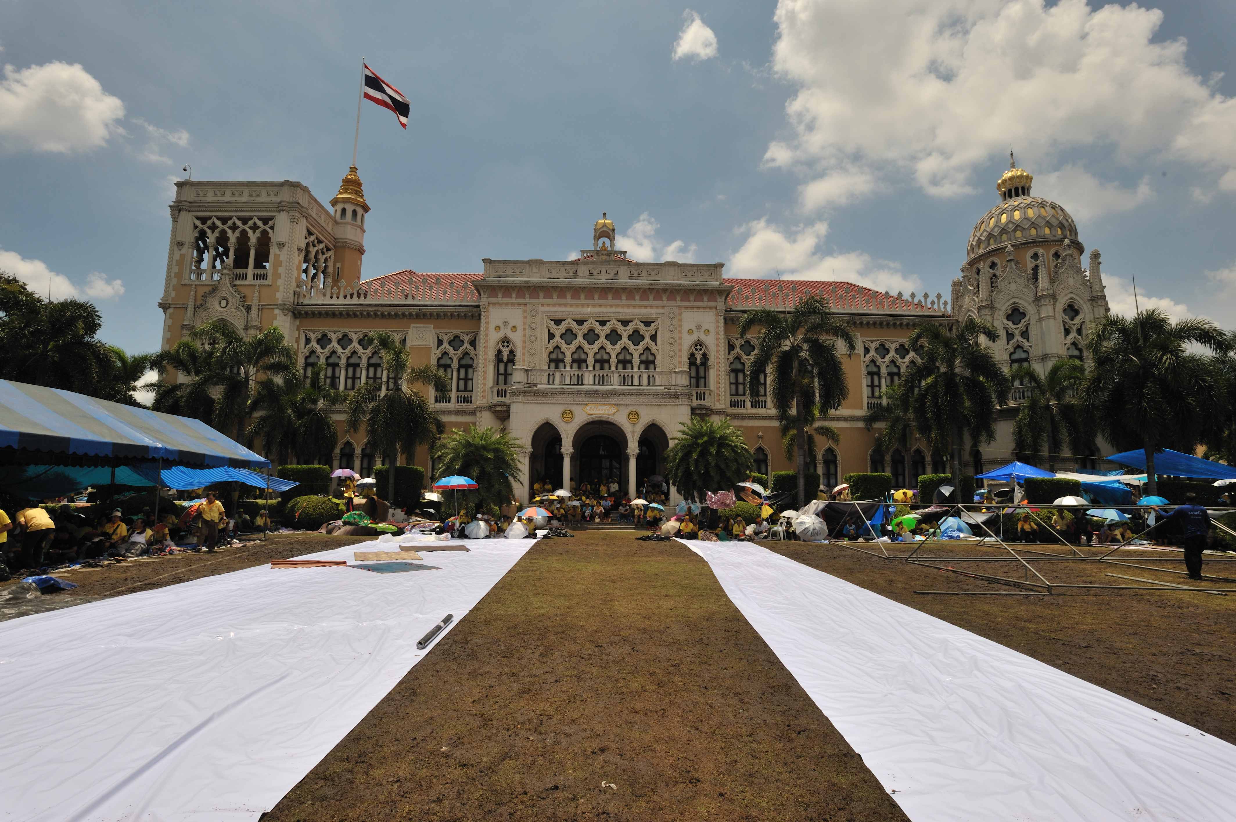 The Government House in Bangkok during the siege by anti-government demonstrants in August 2008.